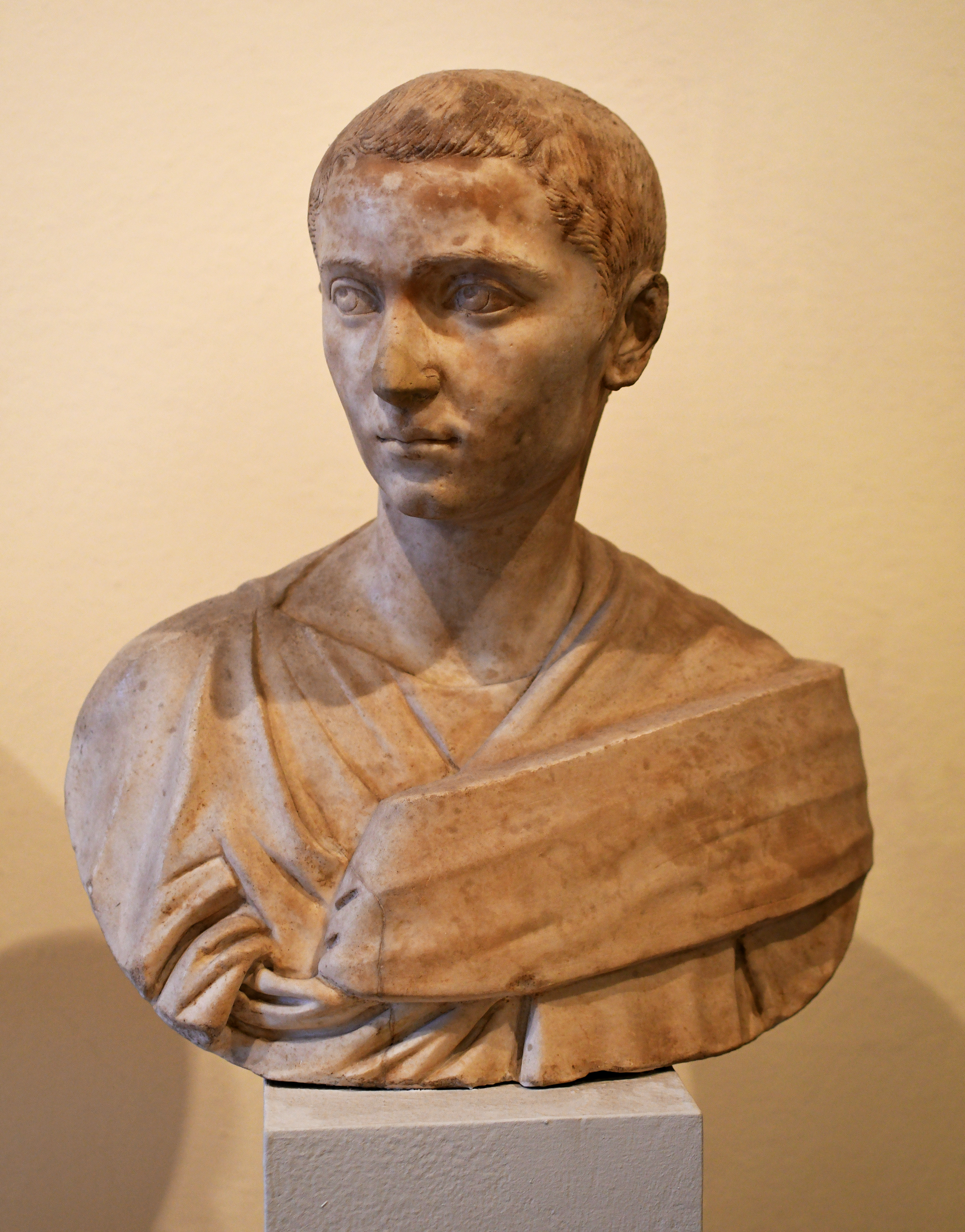 Bust of Philip II (emperor) in Venice